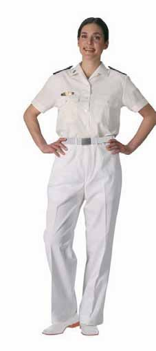 German Forces Medic